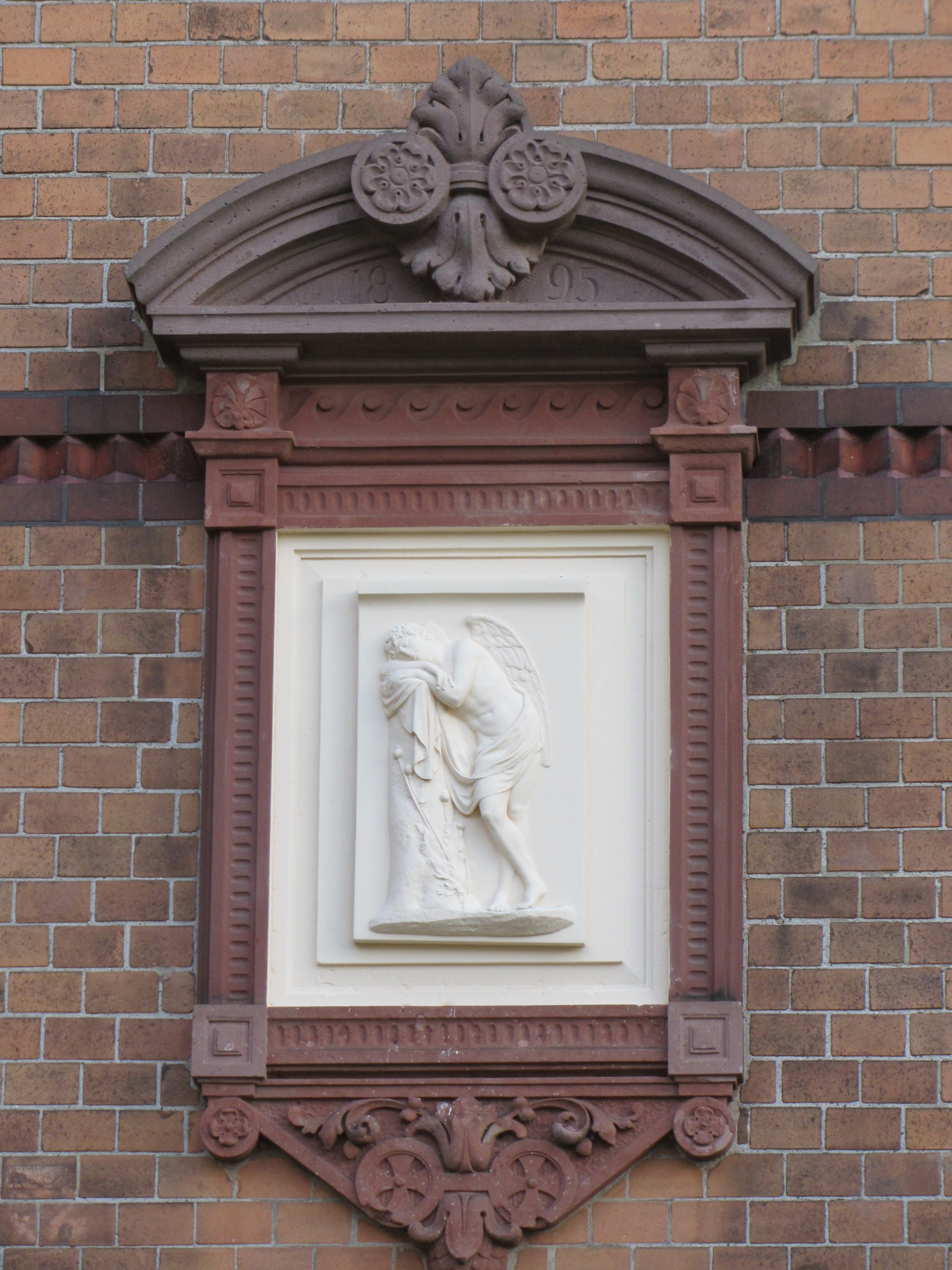 Villa Goethestraße 1 in Schwerin, Mecklenburg-Vorpommern, Germany